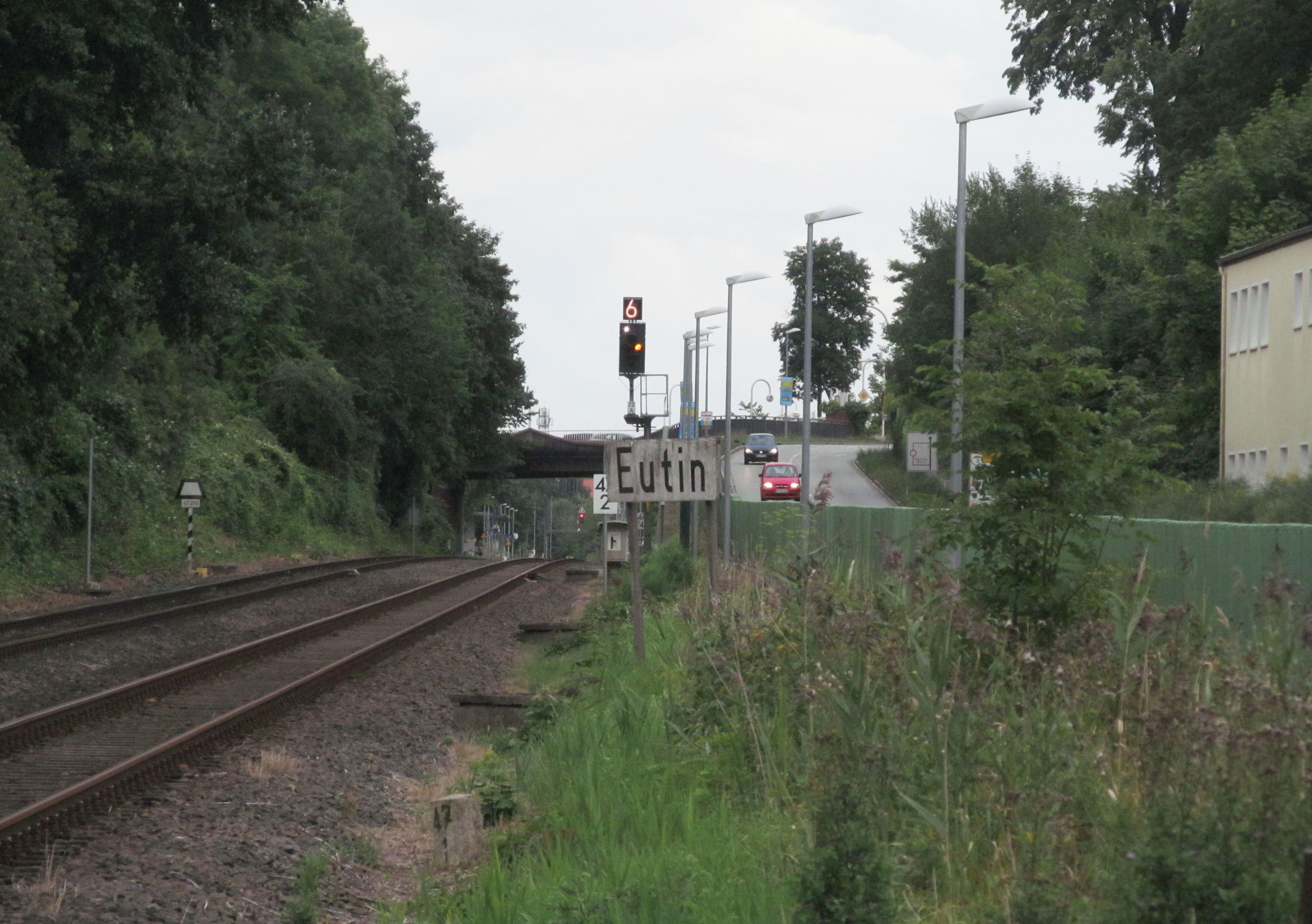 Approach to Eutin railway station